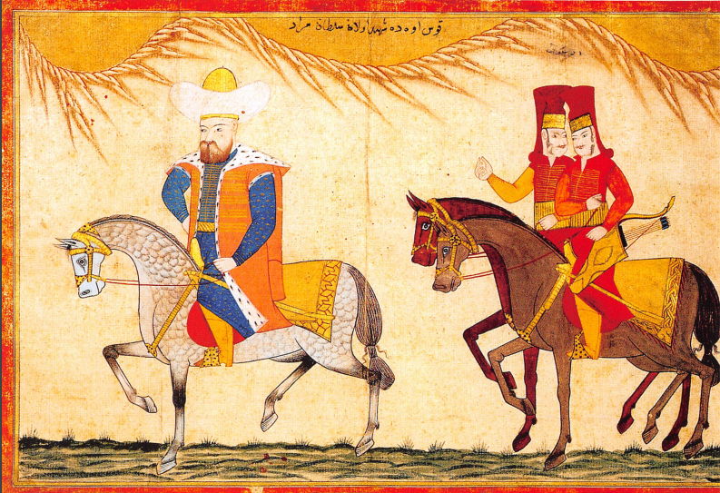 Drawing of Ottoman Sultan Murad I on his horse back being followed by 2 guards. Some Ottoman Turkish writings can be seen on the top which says: Qosvoh shahid Olan Sultan Murad = Kosovo martyr sultan Murad.